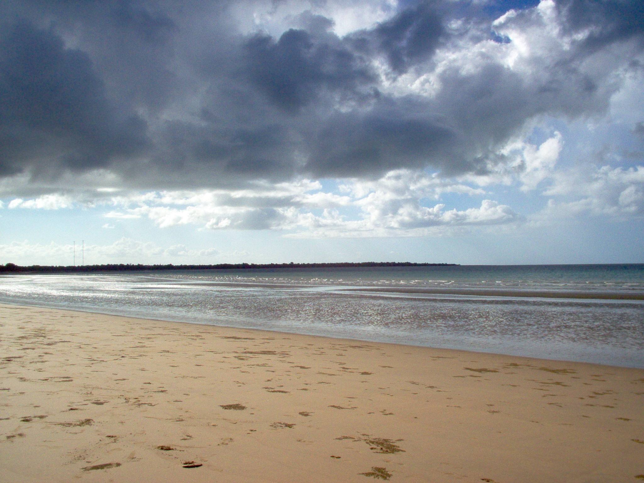 i took this pic on Torquay beach 2006